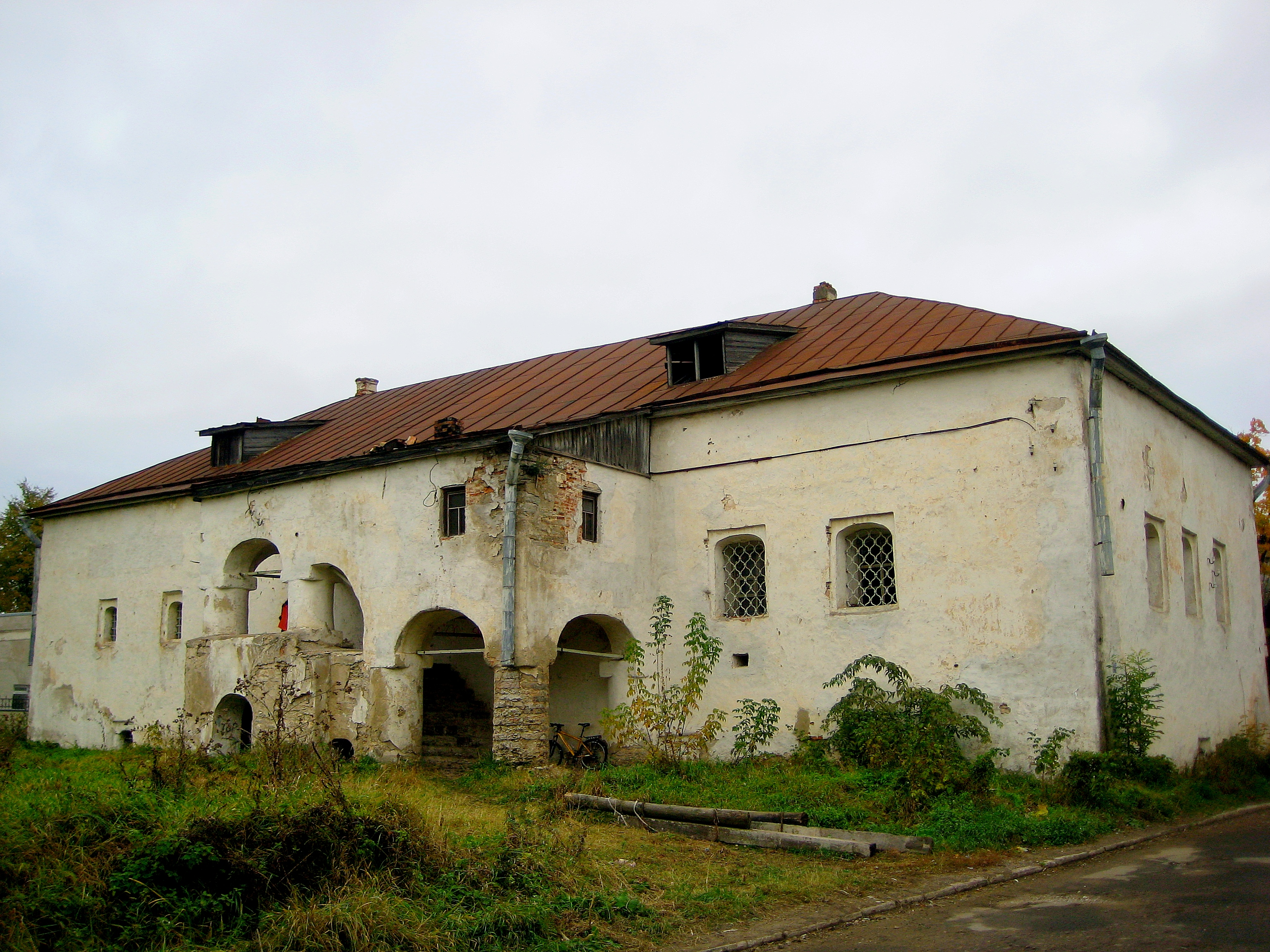 Solodezhnya. XVII: Gogol street, 42. Pskov, Pskov region.